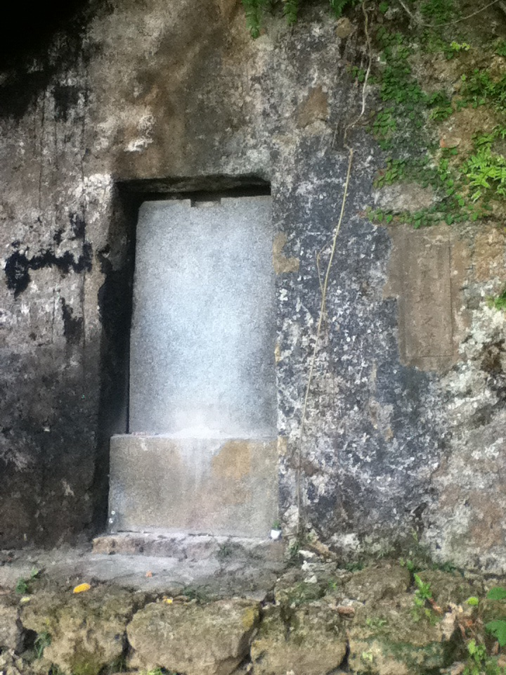 The tomb of Uni-Ufugusuku at Chibaba Castle.